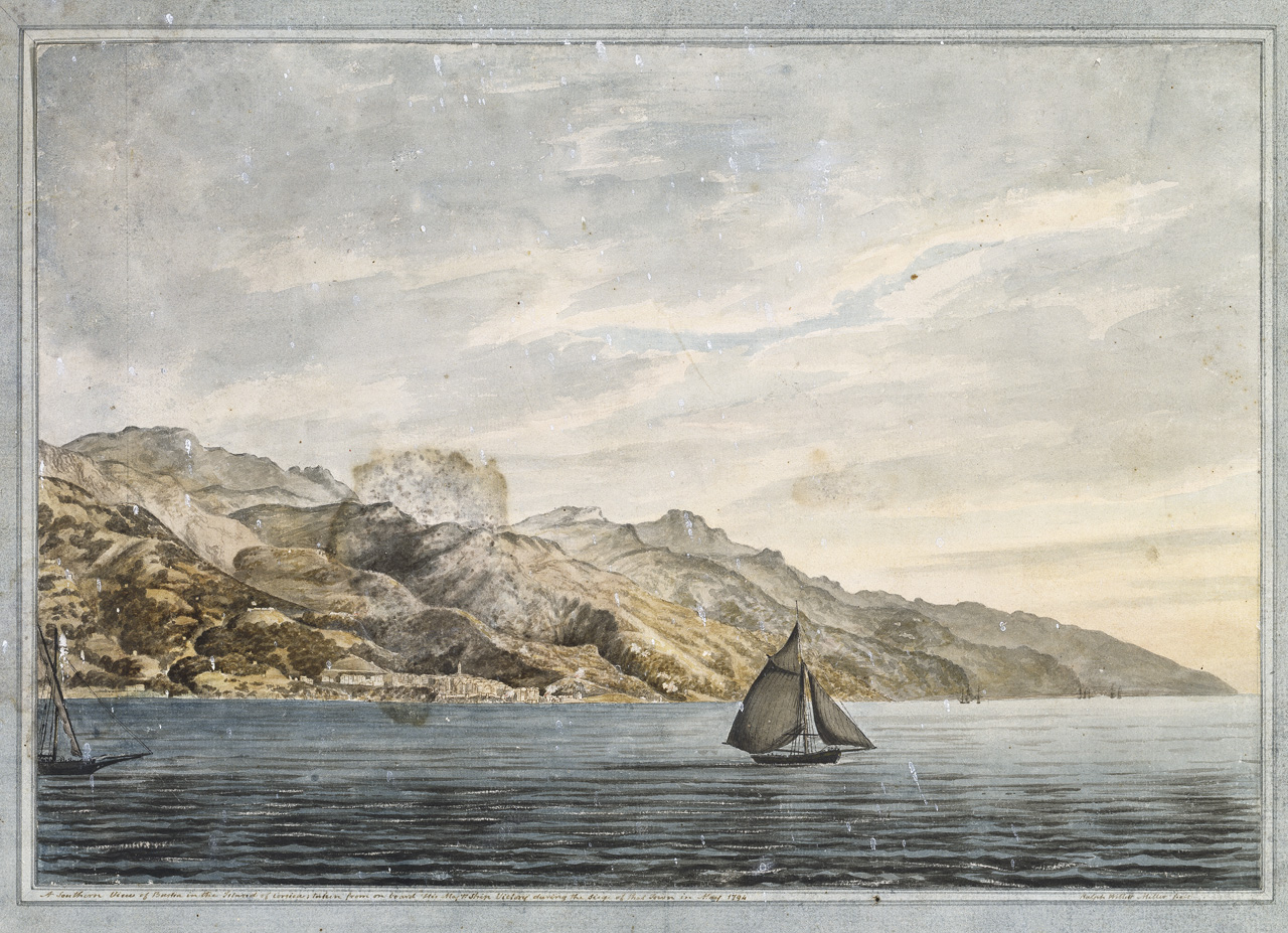 A Southern View of Bastia in the Island of Corsica from on board His Majesty's ship Victory during the Siege of that Town in May 1794. Watercolour by Ralph Willett Miller